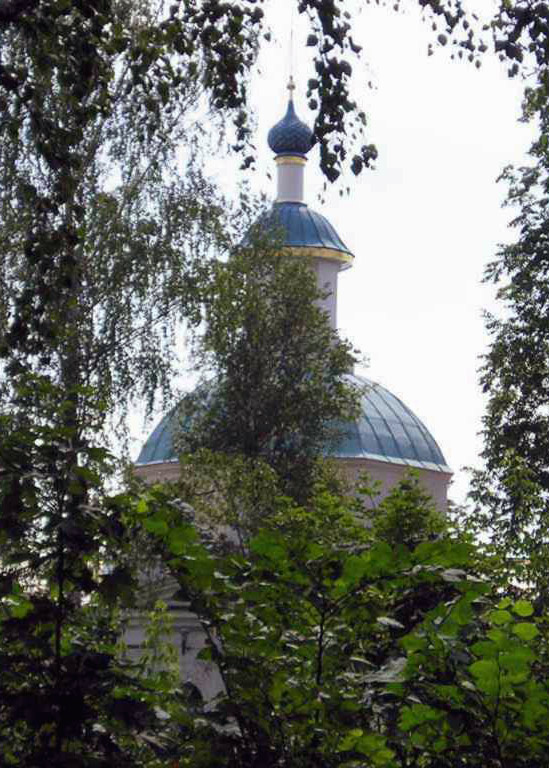 Church of St. Leontius, Yaroslavl (built 1789-91)